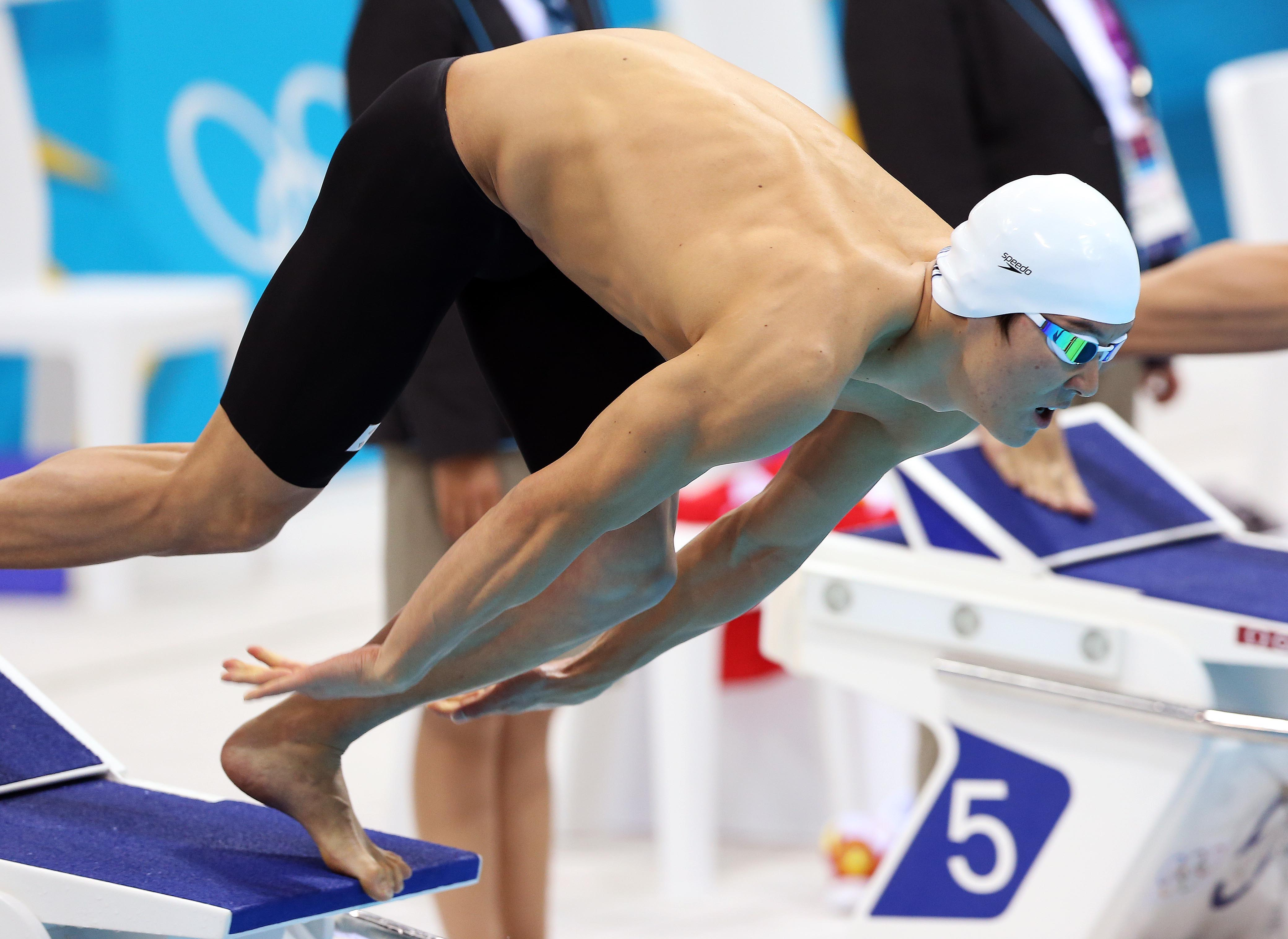 2012 London Olympic Games Korea Park Taehwan Men's 400m Freestyle Silver medal 2012.7.29. Photo by Korean Olympic Committee Ministry of Culture, Sports and Tourism Korean Culture and Information Service 2012 런던 올림픽 박태환 남자 400m 자유형 은메달 획득 사진제공 - 대한체육회 문화체육관광부 해외문화홍보원